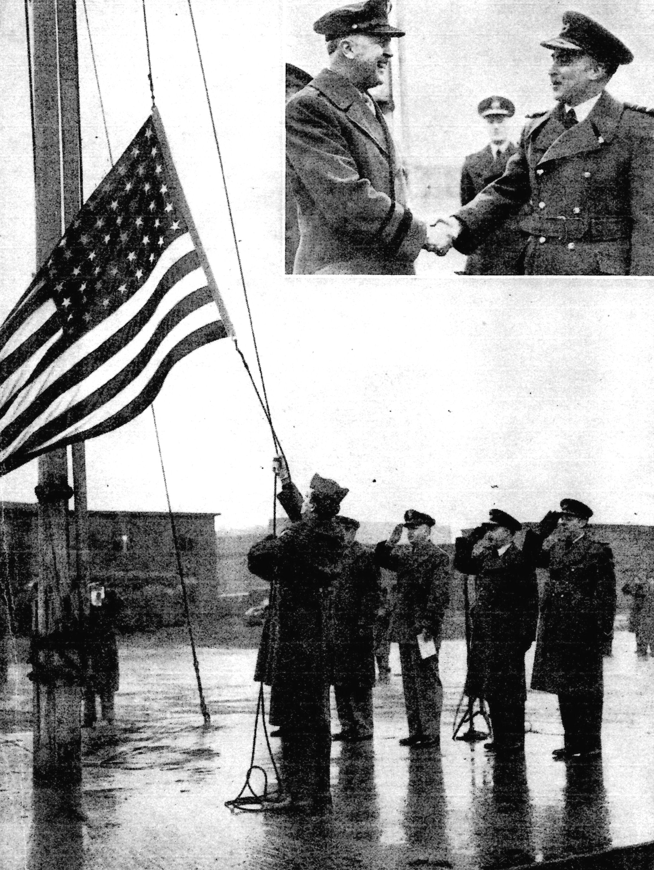 The United States Flag comes down for the last time at RAF Honington. The airfield, which was the first transferred to the United States Army Air Forces for its use in 1942, was the last to be returned to the Air Ministry on 26 February 1946. With this ceremony, the last USAAF organized unit was inactivated in the United Kingdom. This simple ceremony shows USAAF General Emil Kiel, the last commander of the Eighth Air Force in England shaking hands (Inset) and saluting the American Flag as it is brought down; to be replaced by that of the Royal Air Force